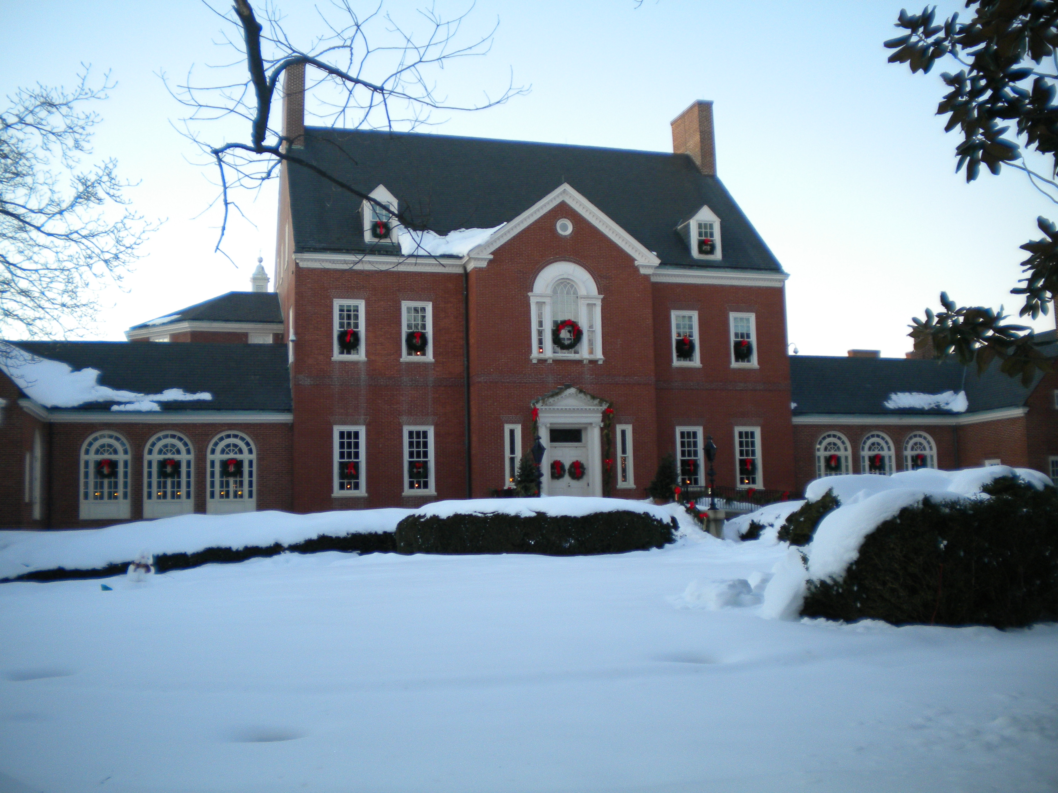 Maryland Governor's Mansion